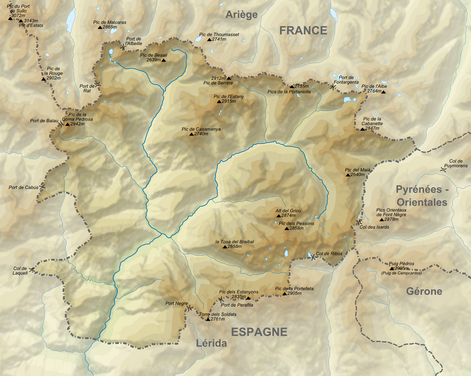 Topographic map of Andorra